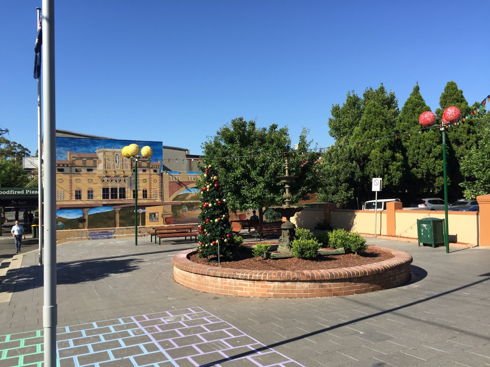 Square area in the Summer Hill suburb of NSW, showing the fountain.